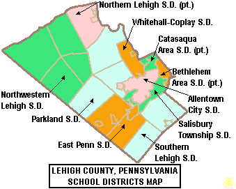 Map of Lehigh County, Pennsylvania, United States Public School Districts